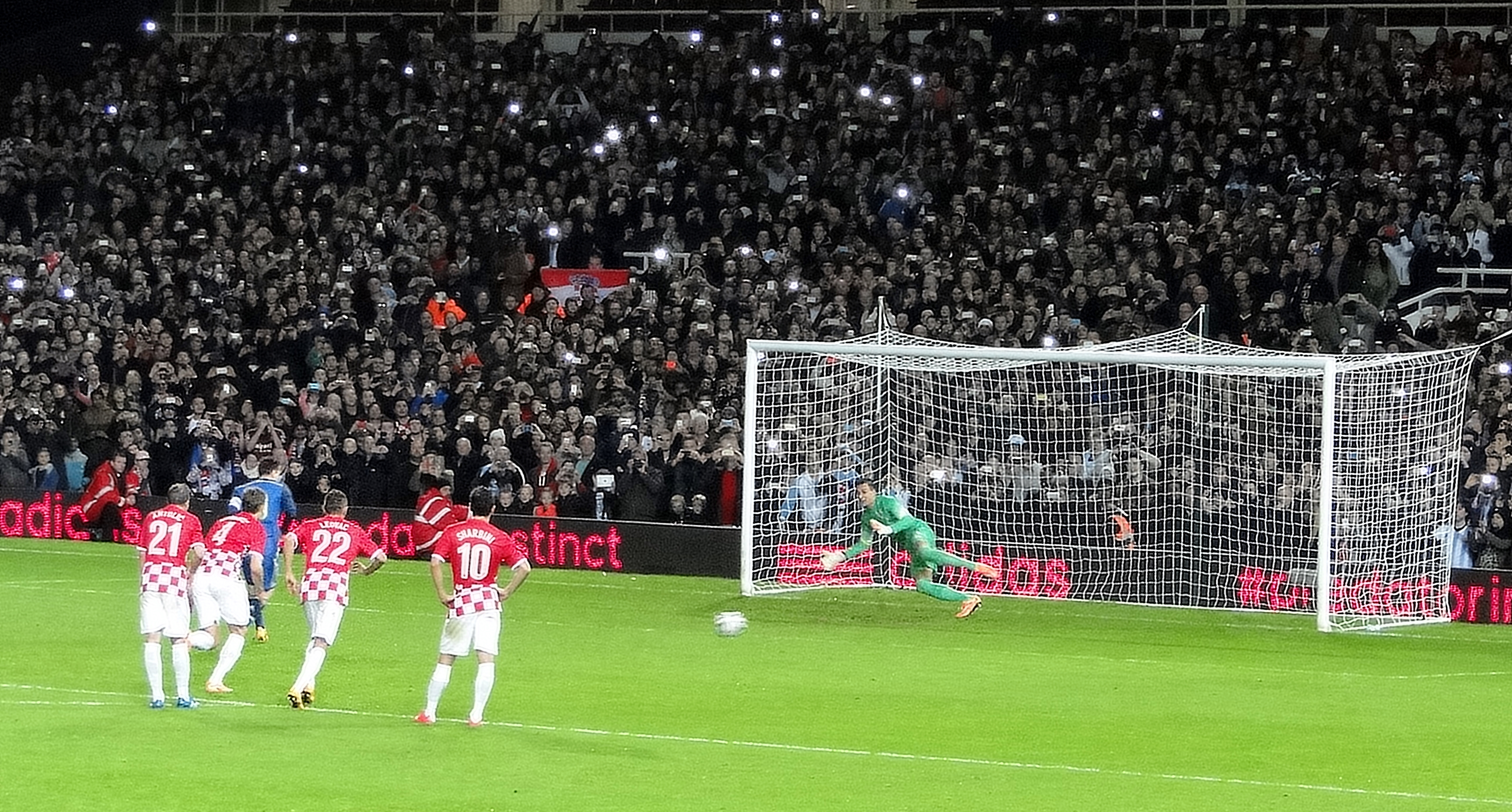 Argentina player, Lionel Messi, scores a penalty in their 2-1 win against Croatia at the Boleyn Ground, November 2014